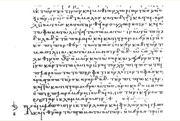 fragment of the codex with text of Rev 11:7-8.9